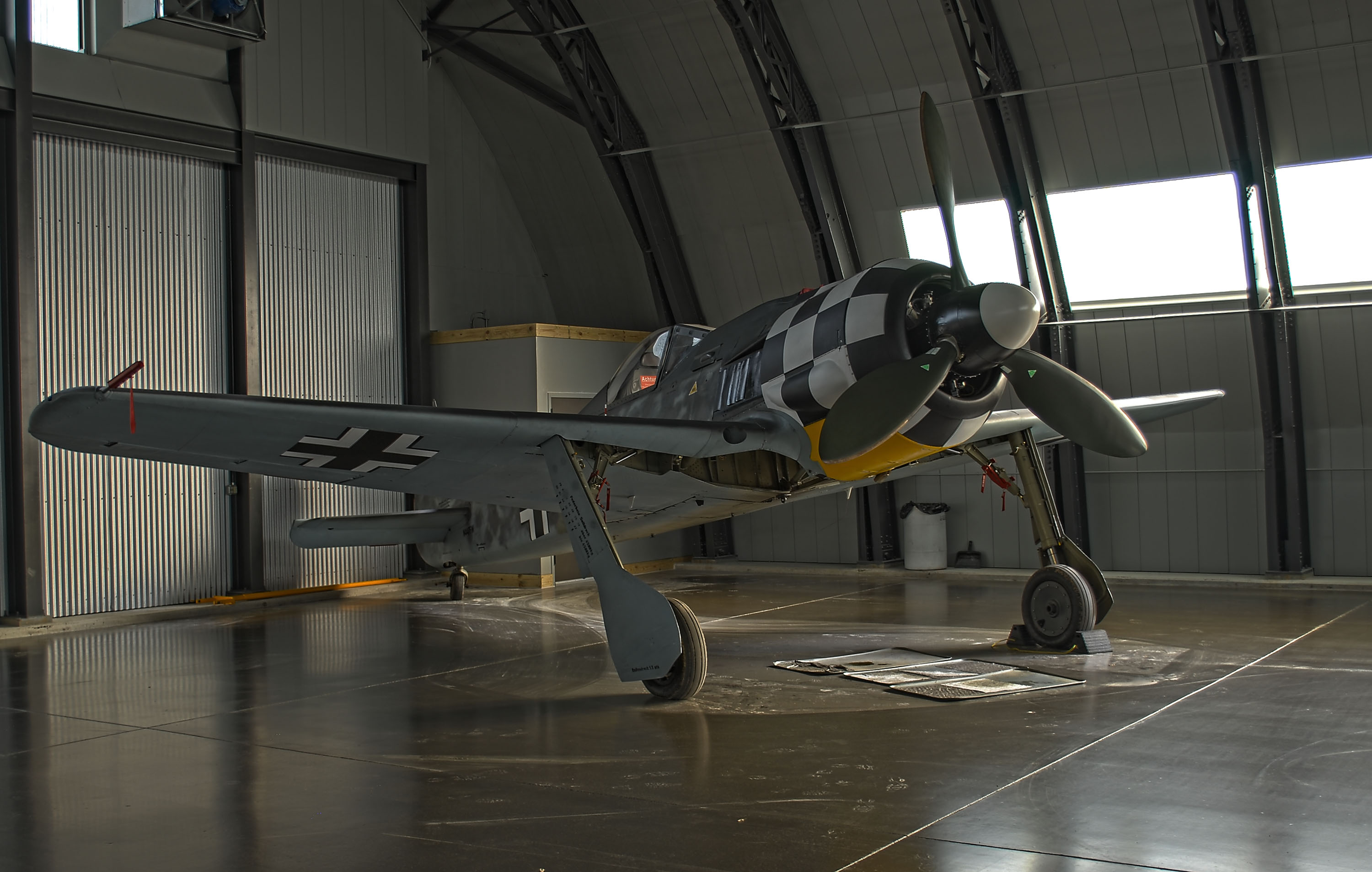 At the Military Aviation Museum in Virginia Beach. Most of the planes are still flying, and gorgeous.